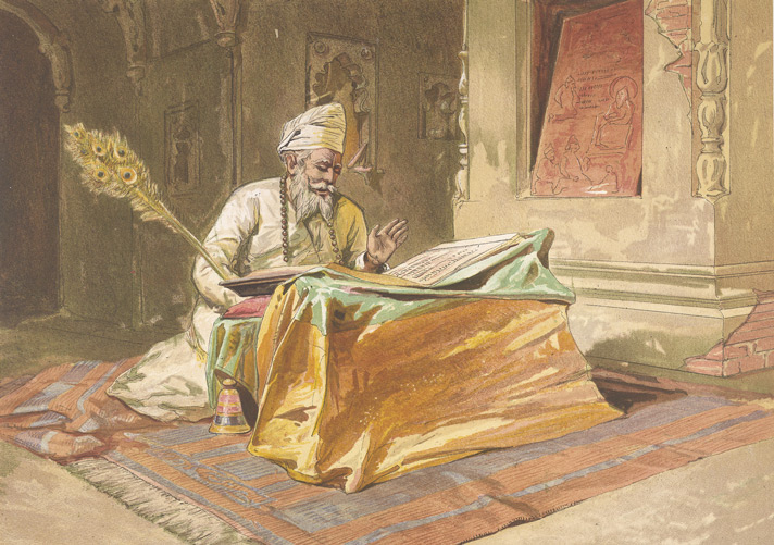 From the source: This chromolithograph is taken from plate 25 of William Simpson's 'India: Ancient and Modern'. The Granth (Guru Granth Sahib) is the sacred book of the Sikhs. Amritsar was founded by the fourth Sikh guru, Guru Ram Das, in 1577, and is the home of the famous Golden Temple, revered by Sikhs as the centre of their faith. The largest city in Punjab state, its growth as a major commercial centre was given impetus in the 19th century by Maharaja Ranjit Singh who diverted the Grand Trunk Road to pass through the city.